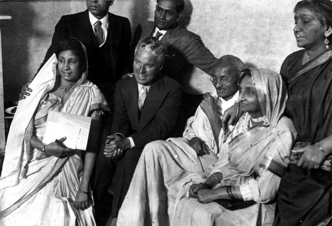 Gandhi meets with Charlie Chaplin at the home of Dr. Kaitial in Canning Town, London, September 22, 1931. Sarojini Naidu is standing on the right.